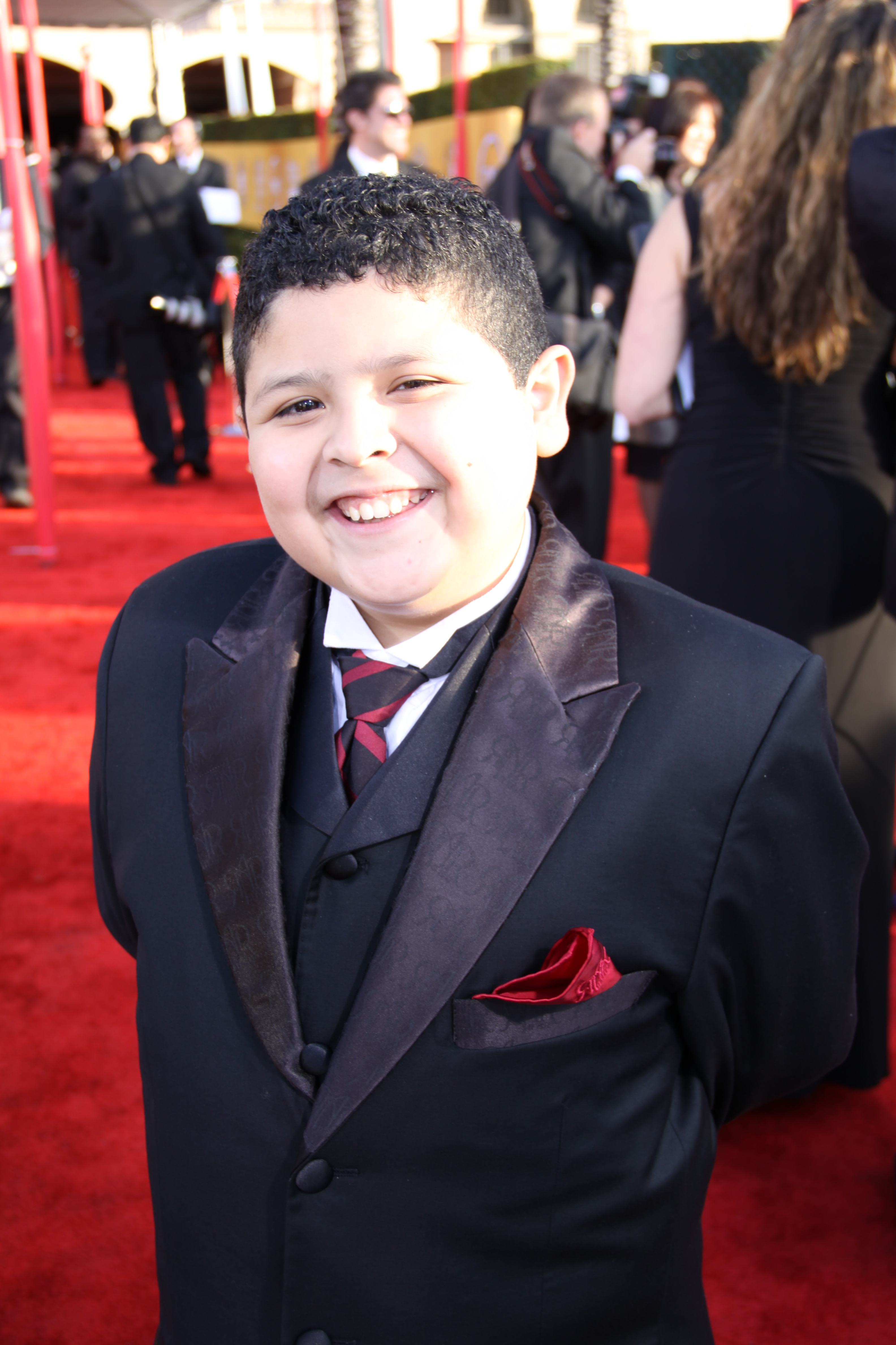 Rico Rodriguez at the Screen Actors Guild Awards at the Shrine Auditorium on January 23rd, 2010.